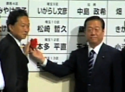 Yukio Hatoyama, President of the Democratic Party, and Ichirō Ozawa, Deputy President of the Democratic Party, posed for photos at the Laforet Museum Roppongi in Minato Ward, Tōkyō Metropolis on August 30, 2009.